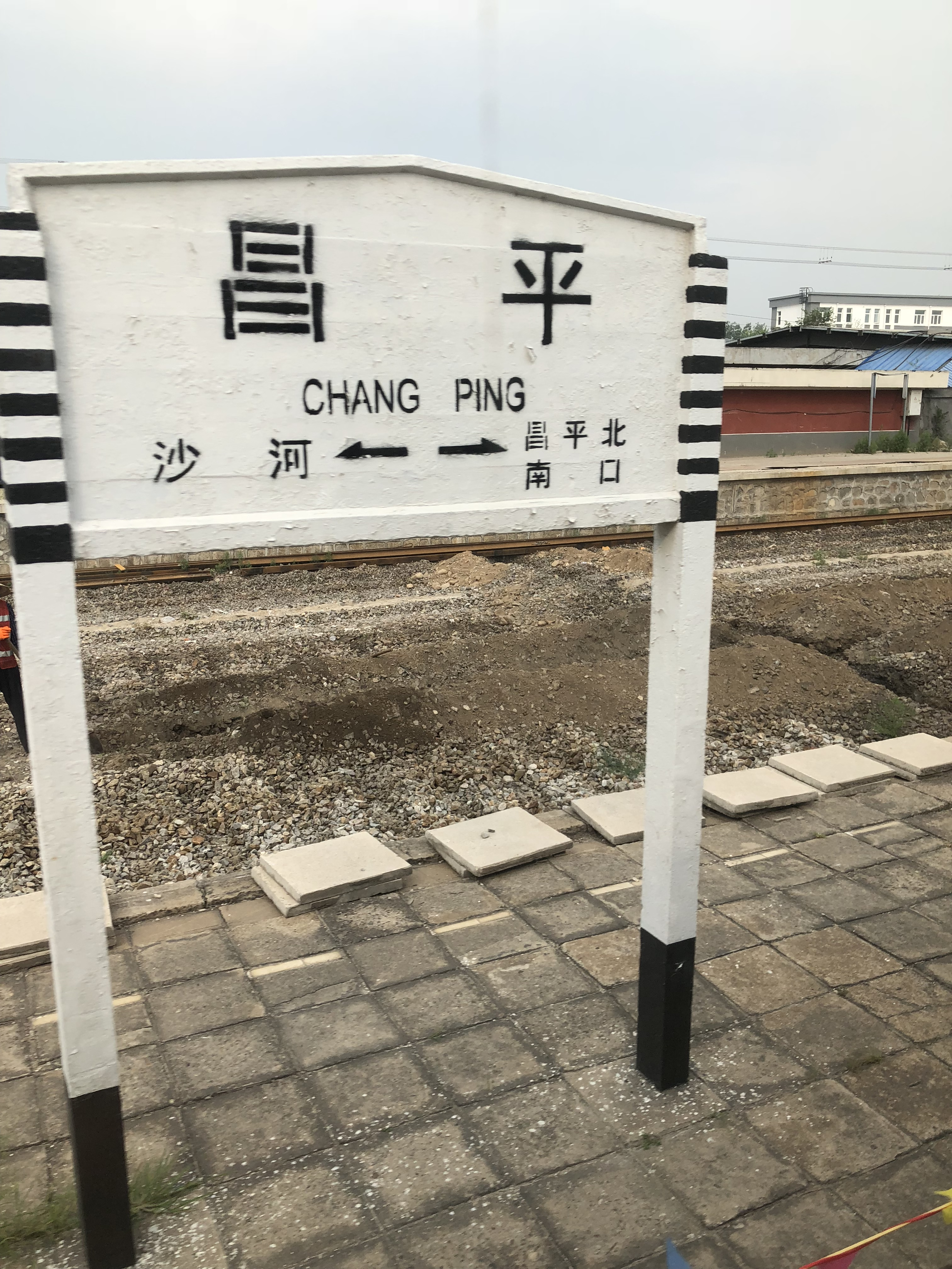 Changping Railway Station (Beijing)